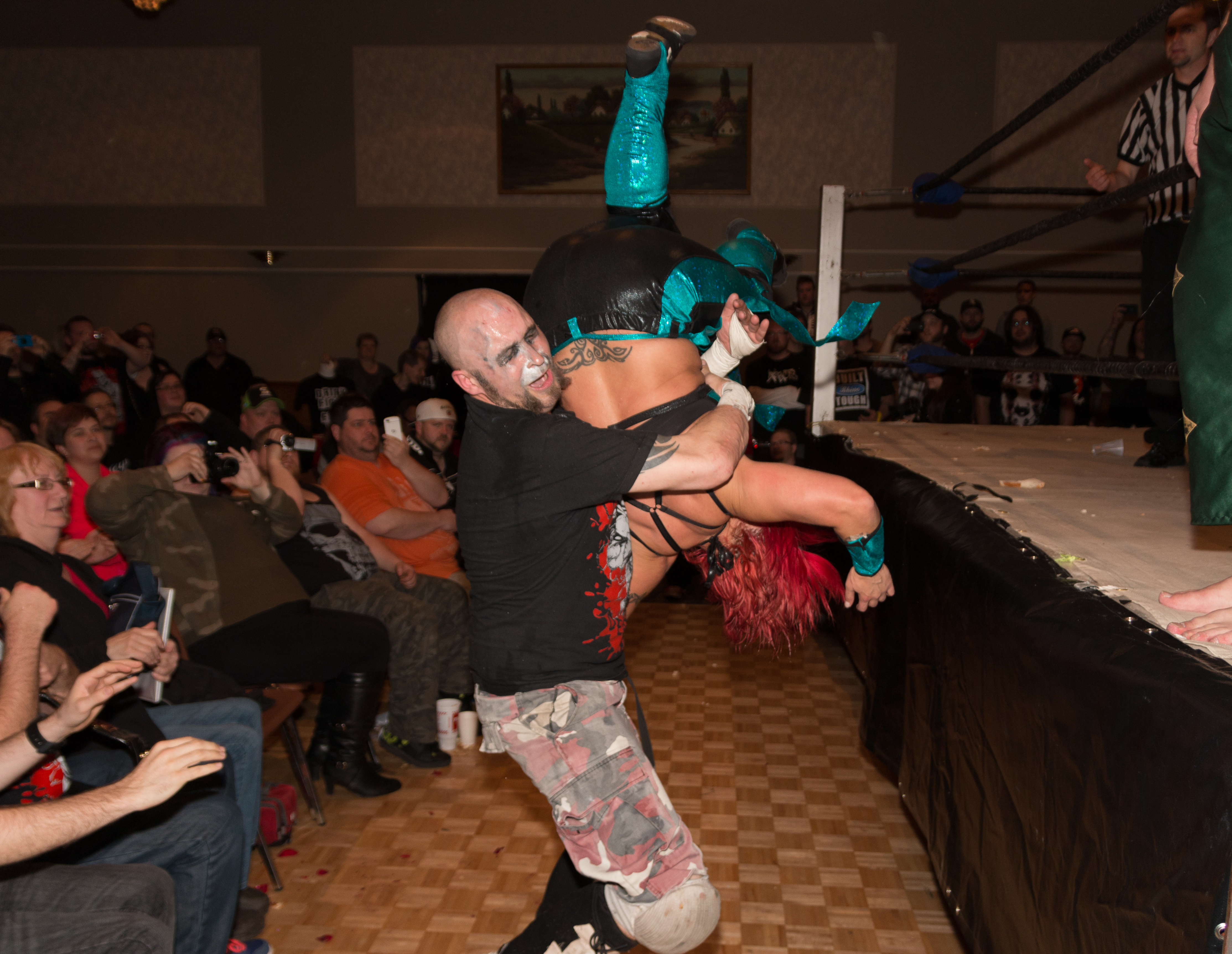 Independent wrestler LuFisto executing a somersault senton onto Warhed at an independent show in London, ON